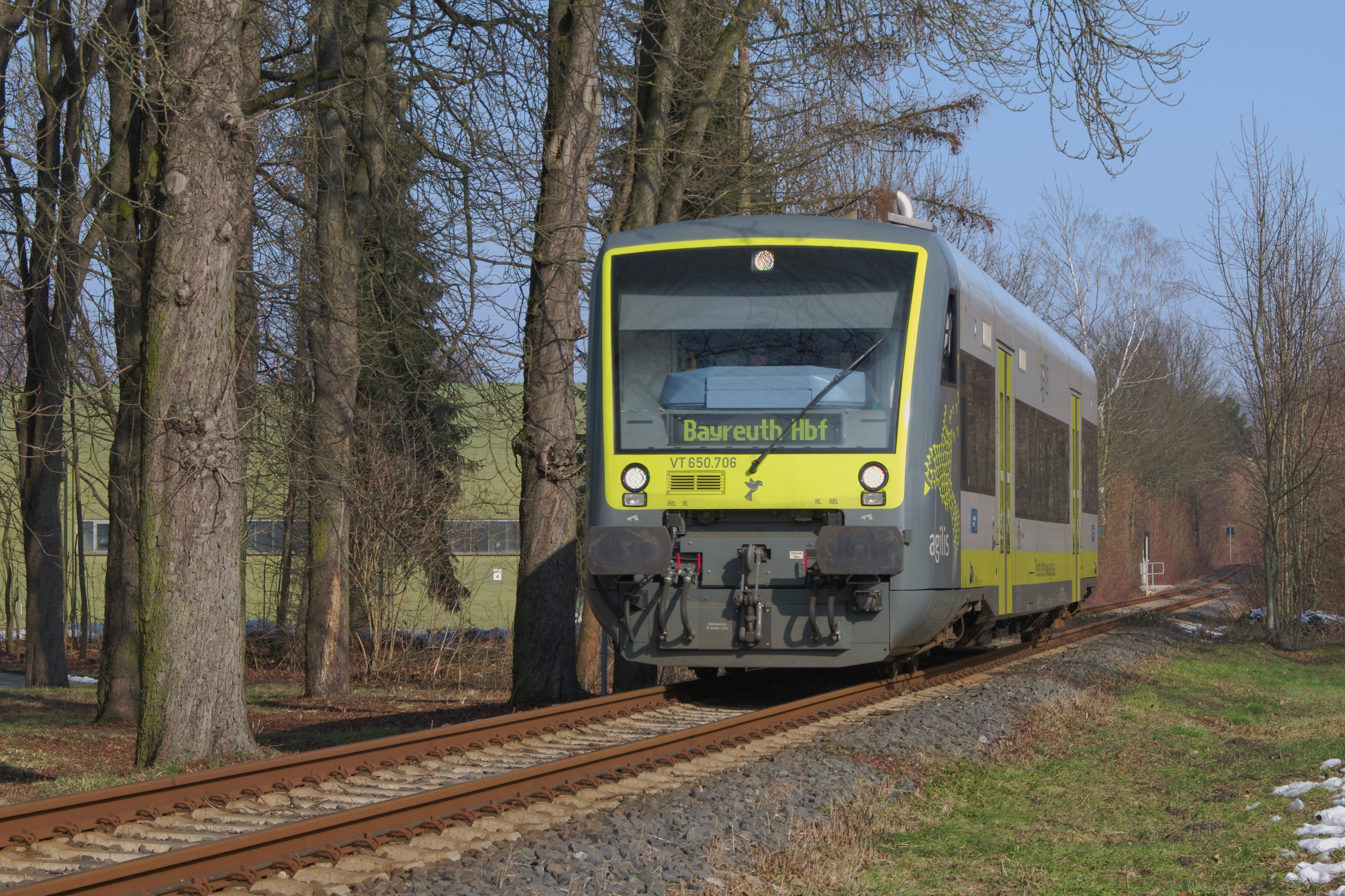 Agilis train in Laineck, Bayreuth, Germany